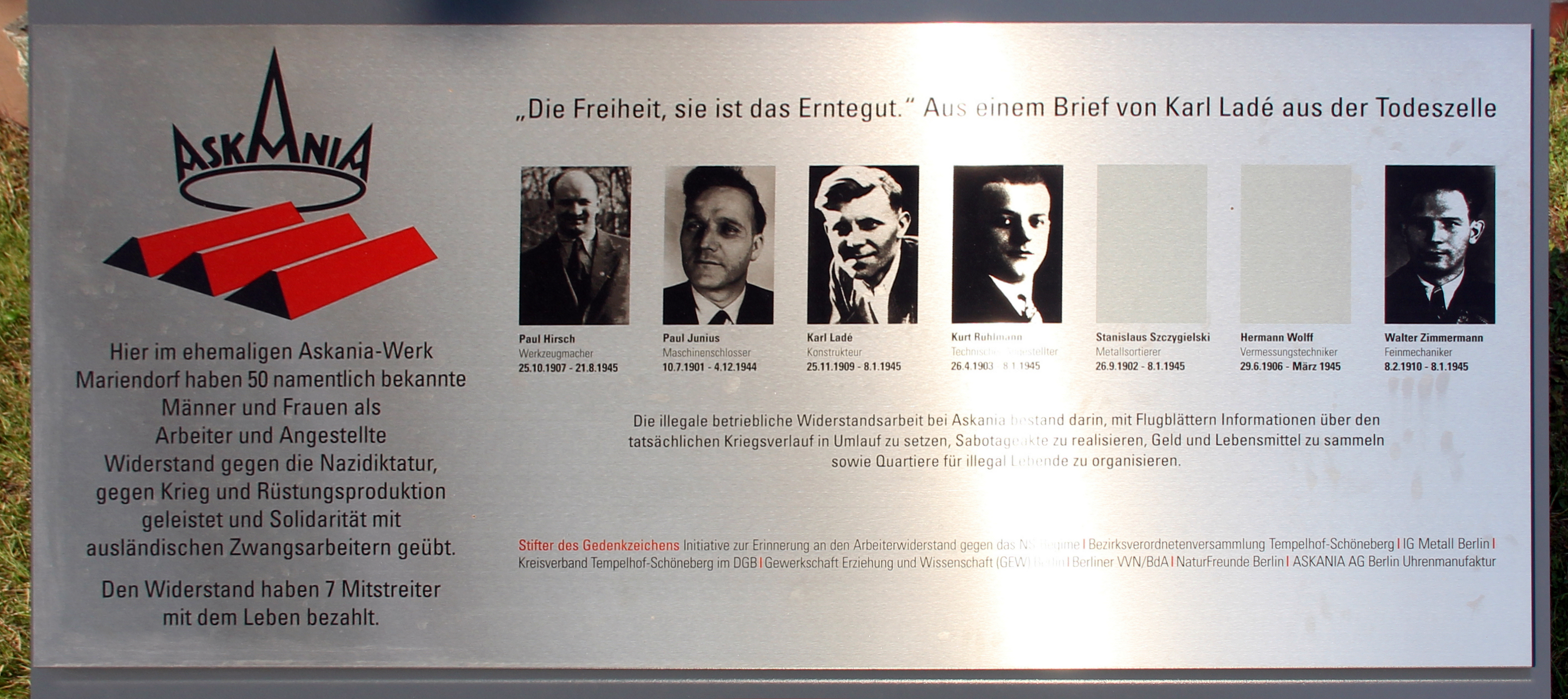 Memorial plaque, Askania Werke, Paul Hirsch, Paul Junius, Karl Ladé, Kurt Rühlmann, Stanislaus Szczygielski, Hermann Wolff and Walter Zimmermann, Großbeerenstraße 2, Berlin-Mariendorf, Germany